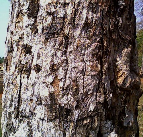 Bark of Aegle marmelos tree species-an important medicinal plant, occuring in Soutern Tropical Moist Deciduous Forests in Maharastre state, India.